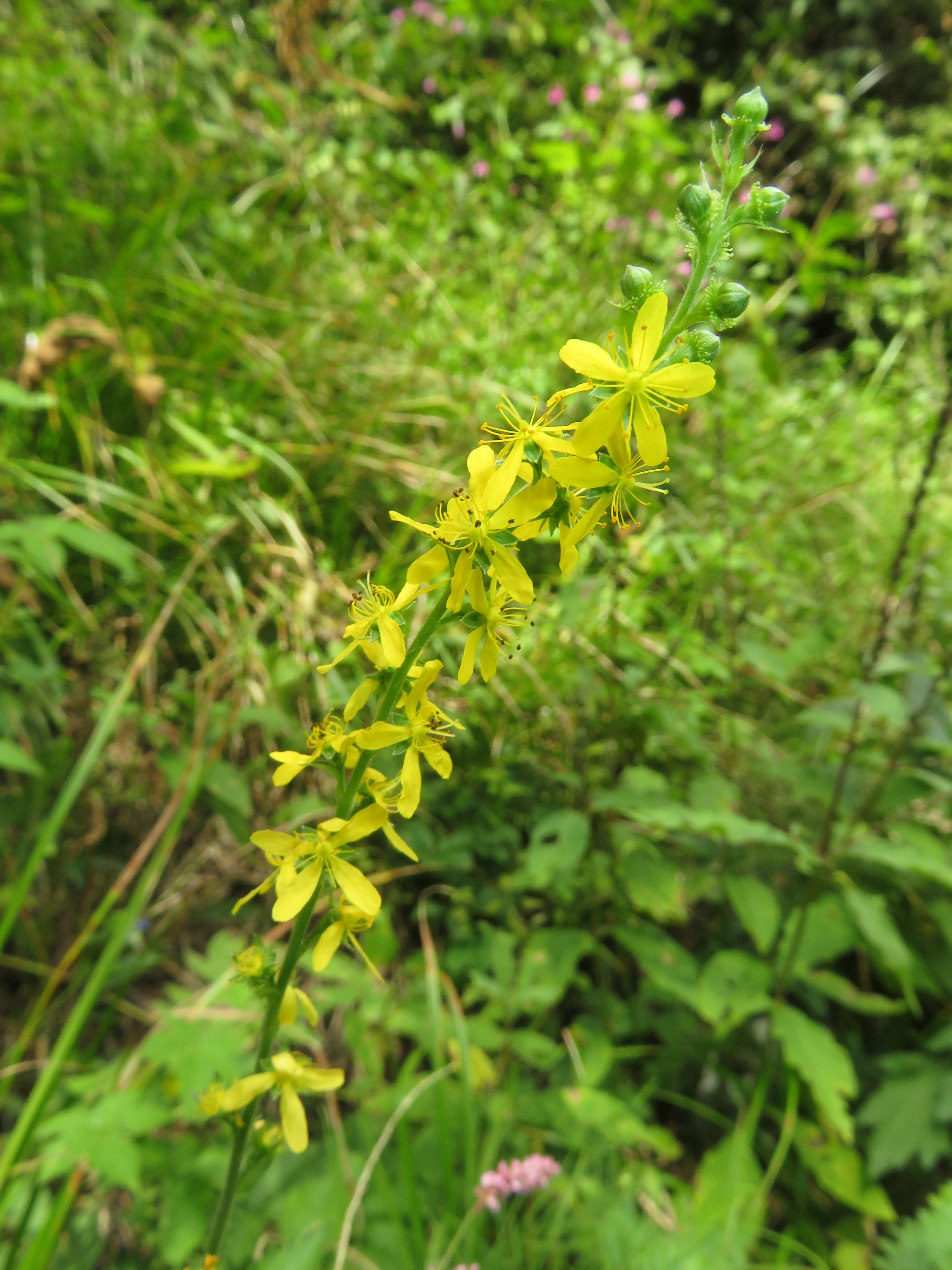 Agrimonia pilosa var. japonica, Aizu area, Fukushima pref., Japan